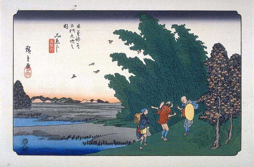 Mieji on the Kisokaido, ukiyo-e prints by Hiroshige